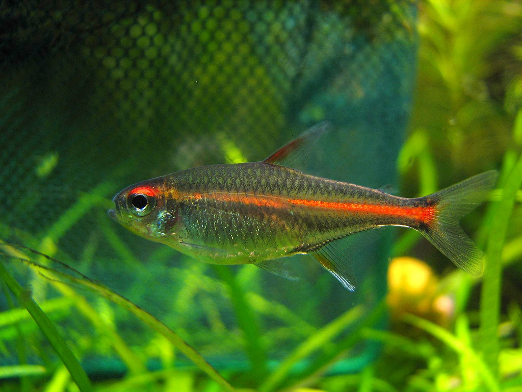 Tetra Glowlight Hemigrammus erythrozonus